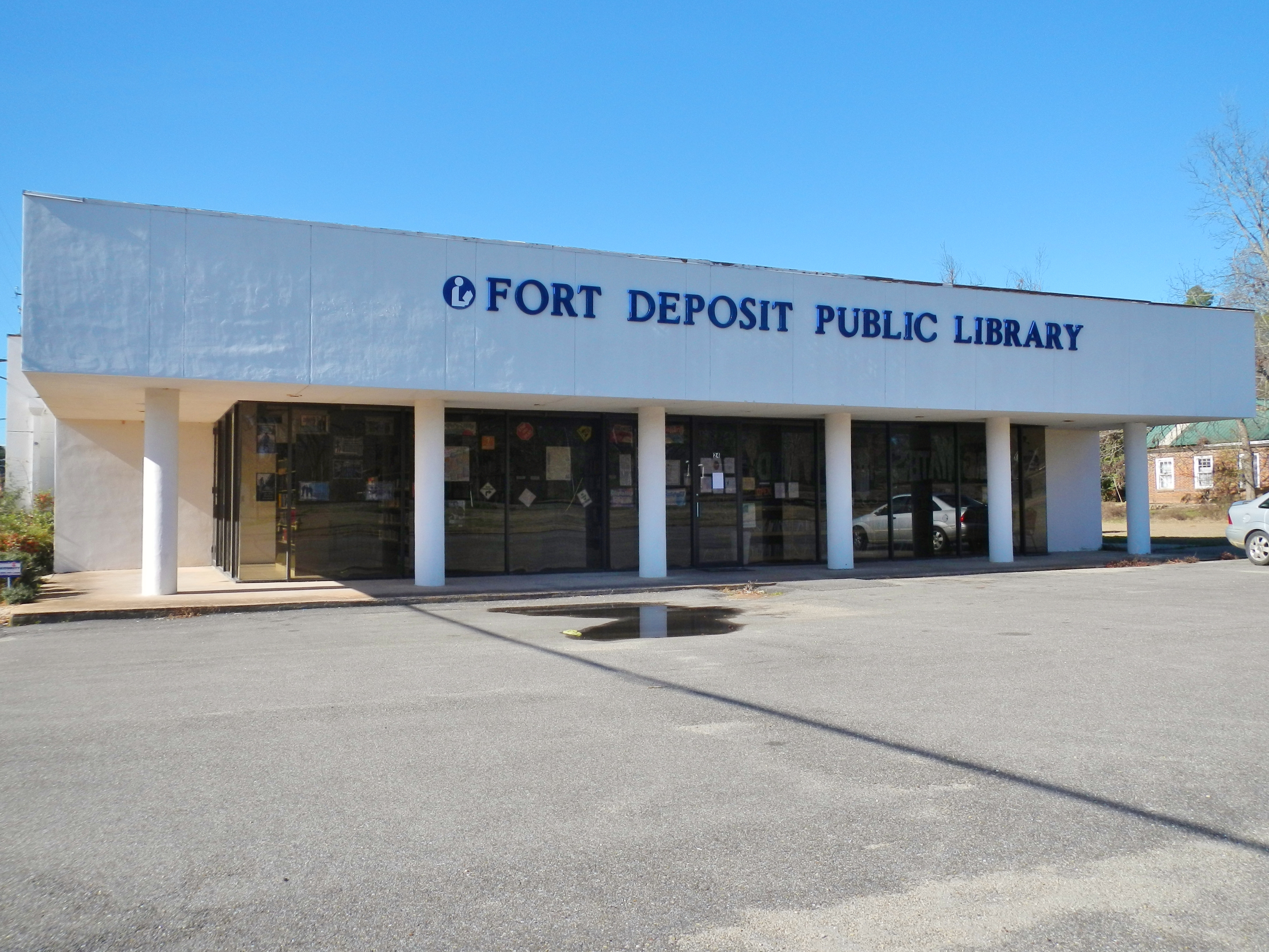 This is a photograph of the Fort Deposit Public Library in Fort Deposit, Alabama.